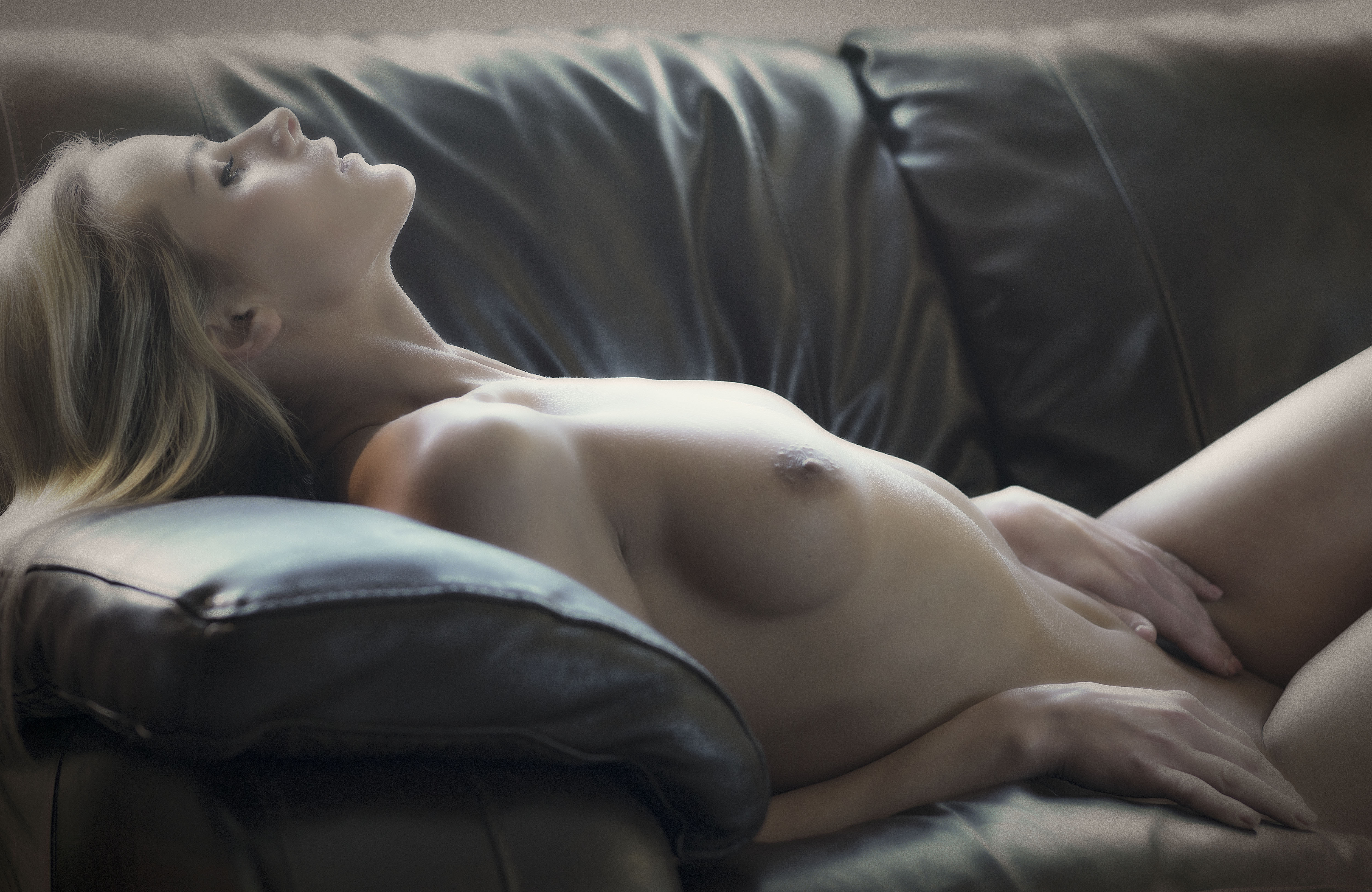 Chloe touching herself